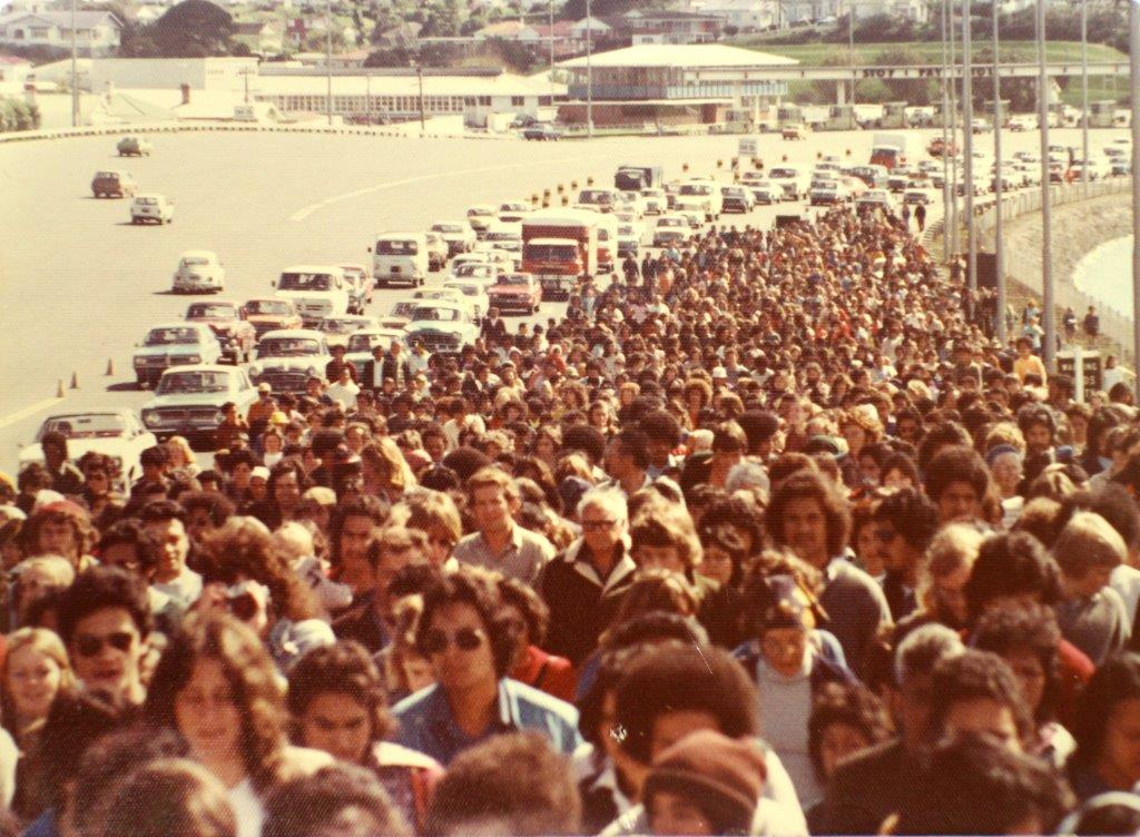 On 13 October 1975, a hikoi of 5,000 marchers arrived at Parliament to protest the ongoing alienation of Māori land. Organised by Māori land rights group Te Rōpū O Te Matakite and led by Dame Whina Cooper, the hikoi had departed from Te Hapua, Northland, on 14 September, and arrived in Wellington after marching 1,100 kms throughout the North Island. Te Rōpū O Te Matakite regarded the land march as ‘a climax to over a hundred and fifty years of frustration and anger over the continuing alienation of their lands’. Upon their arrival at Parliament they presented a petition signed by 60,000 people from around New Zealand to Prime Minister Bill Rowling. The petition called for an end to monocultural land laws which excluded Māori cultural values, and asked for the ability to establish legitimate communal ownership of land within iwi. The hikoi represented a watershed moment in the burgeoning Māori cultural renaissance of the 1970s. It brought unprecedented levels of public attention to the issue of alienation of Māori land, and established a method of protest that was repeatedly reused in the following decades. To mark the 40th anniversary of the Land March, Archives New Zealand has created an album on Flickr to highlight key documents within our holdings that relate to the event. These include the petition with 60,000 signatures presented by Dame Whina Cooper to Prime Minister Bill Rowling, images of the Land March approaching Wellington City and correspondence related to the planning that went on behind the scenes to support the march taking place. This Ministry of Works photograph shows the tail of the 1975 Māori Land March crossing the Auckland Harbour Bridge. It comes from the Auckland Office of Archives New Zealand. Archives Reference: BCCH 10887-1s Material from Archives New Zealand